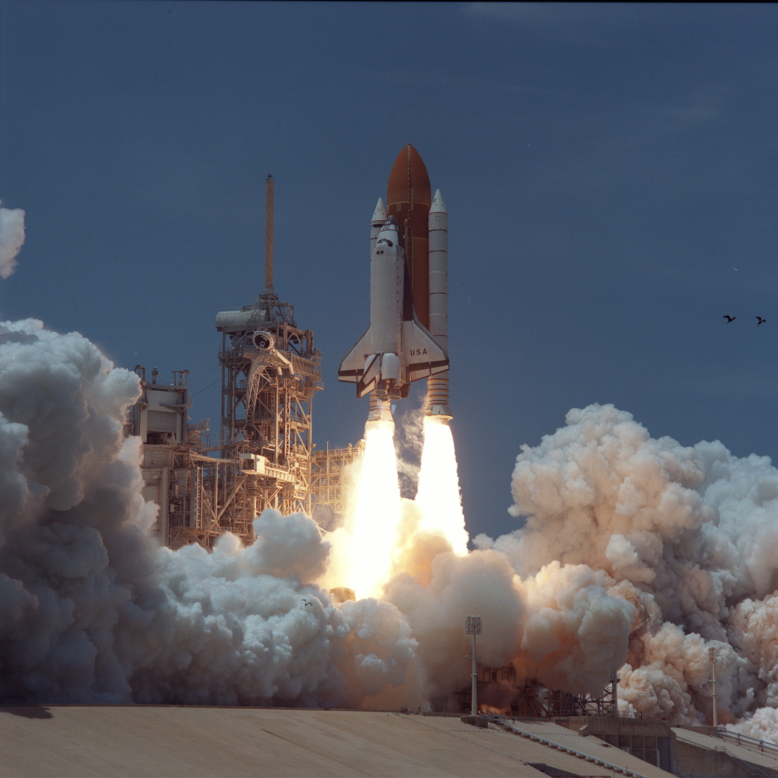 Launch of Space Shuttle Columbia at the KSC